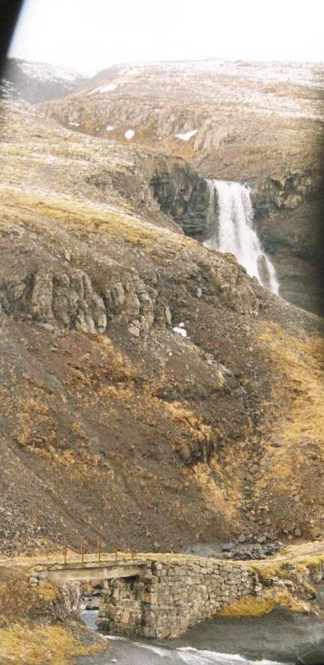 This are parts of an old road on Holtavörðuheiði in the west of Iceland.